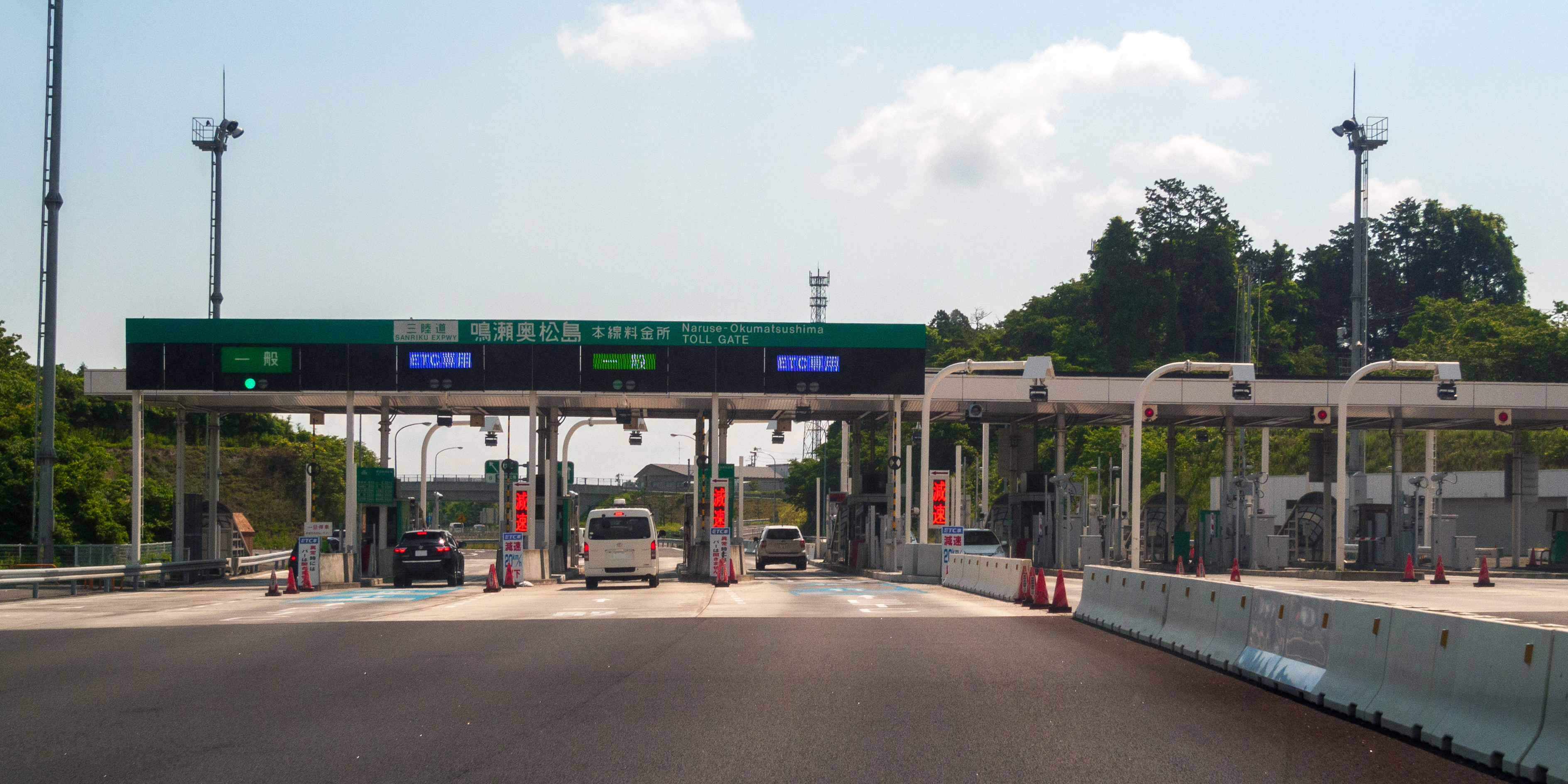 Naruse-Okumatsushima Toll Gate on the Sanriku Expressway in Higashimatsushima City, Miyagi Prefecture, Japan